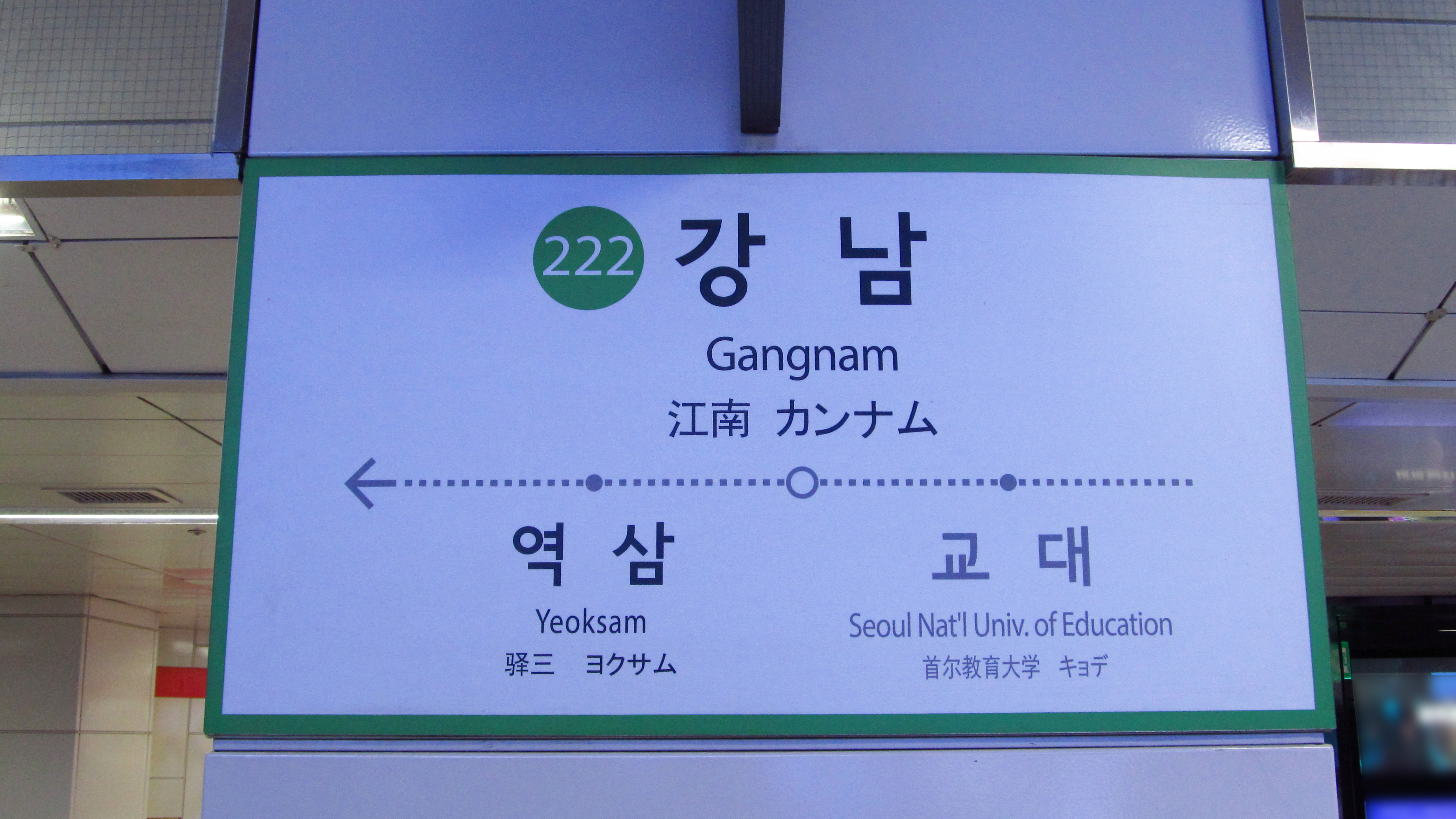 A sign of Gangnam Station on Seoul Subway Line 2